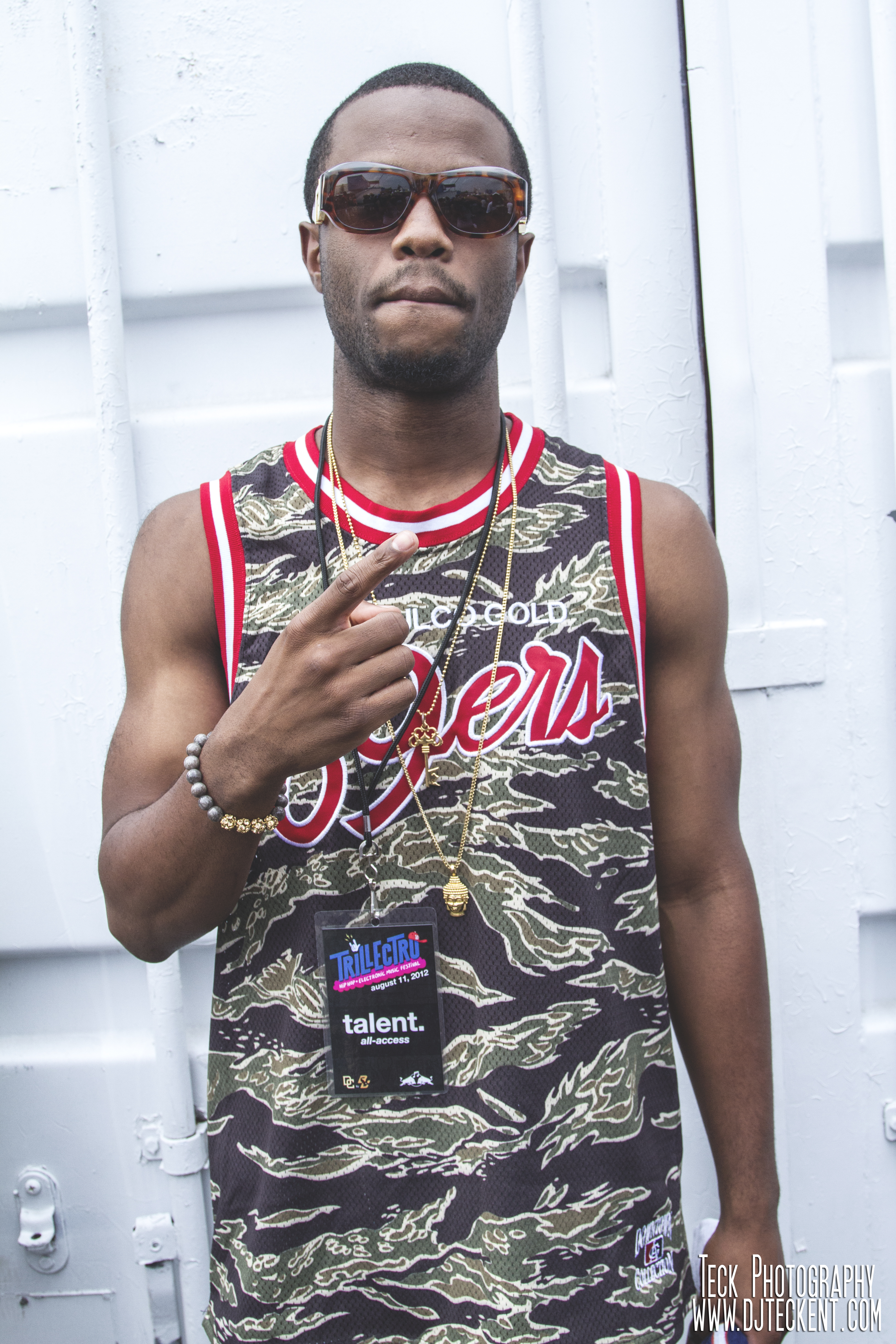 Casey Veggies, Trillectro Music Festival 2012